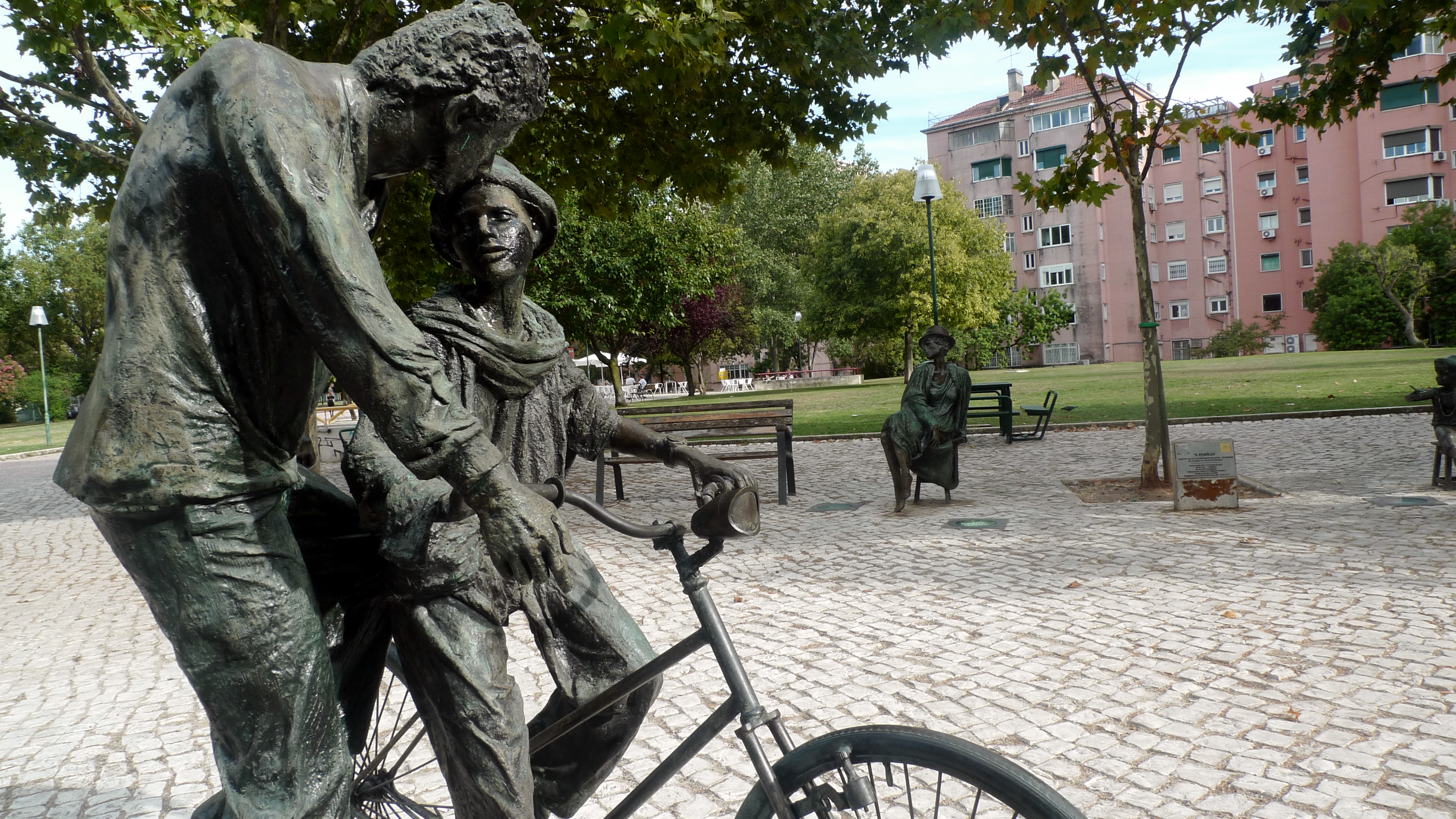 Fernando Pessa Garden - Lisbon